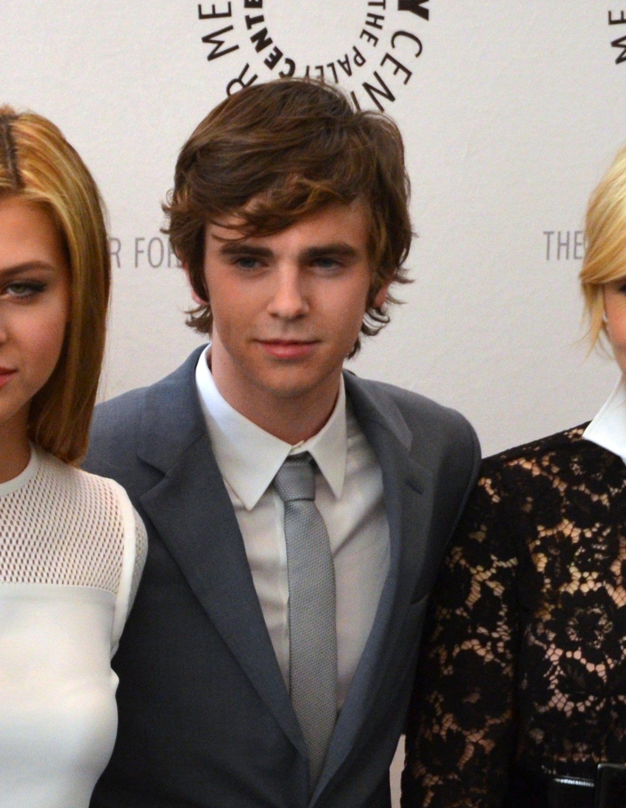 Freddie Highmore at Paley Center for Media for the Bates Motel: Reimagining a Cinema Icon panel.